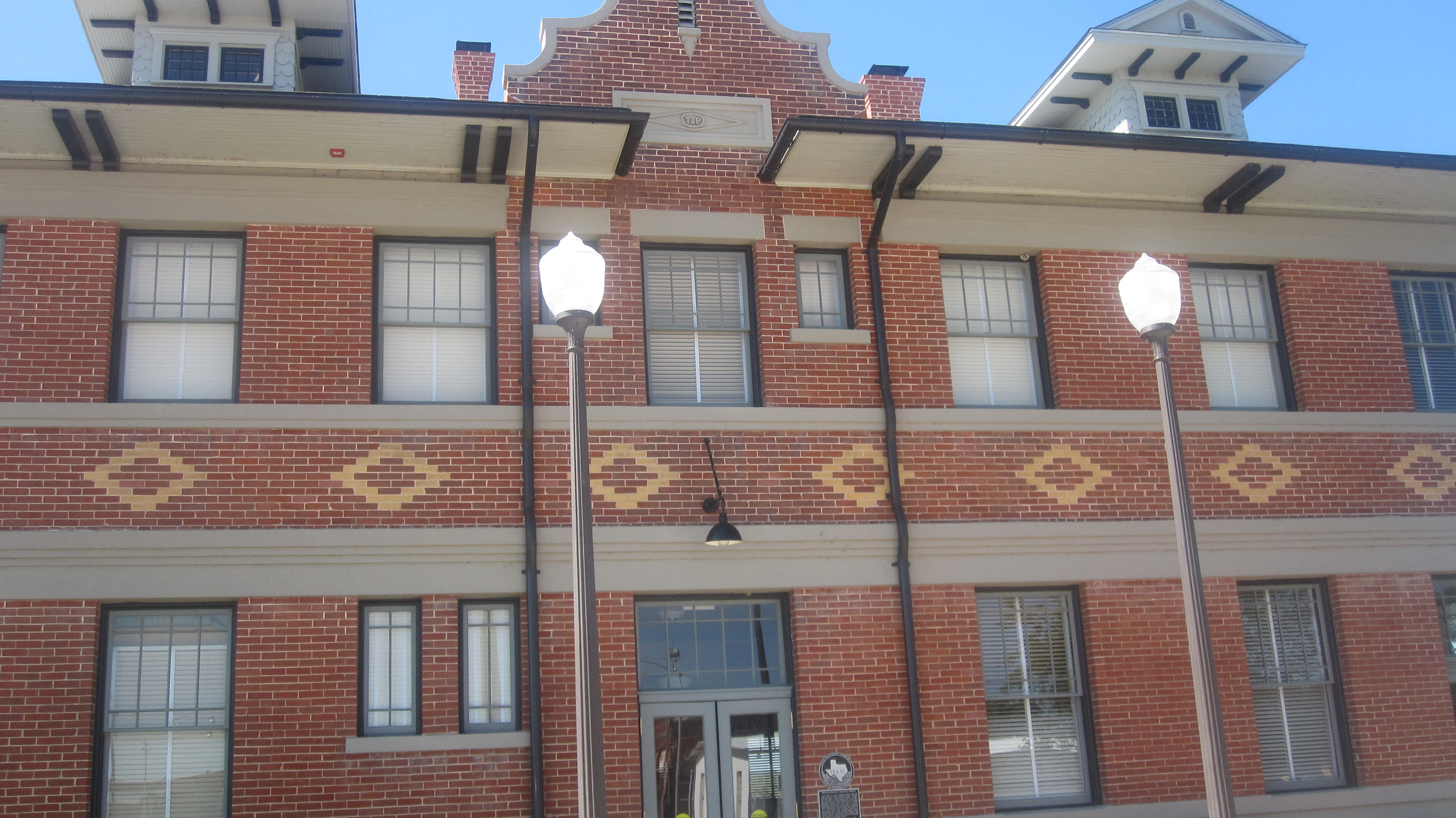 The Texas and Pacific Railway built this Prairie style train station in Baird in 1911. It was designated a Recorded Texas Historic Landmark in 1985. The former depot now serves as The T&P Depot Visitor Center and Transportation Museum. I took photo in Baird, TX, with Canon camera.